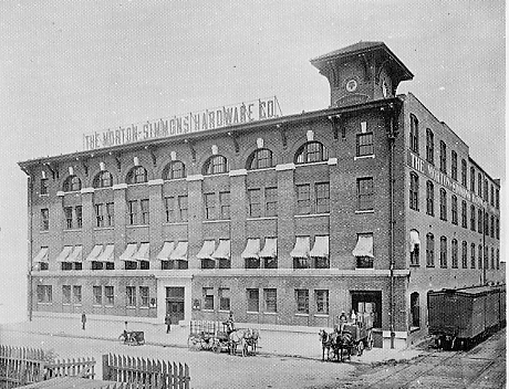 This is of the Keen Kutter building in Wichita Kansas. This image was used in advertising